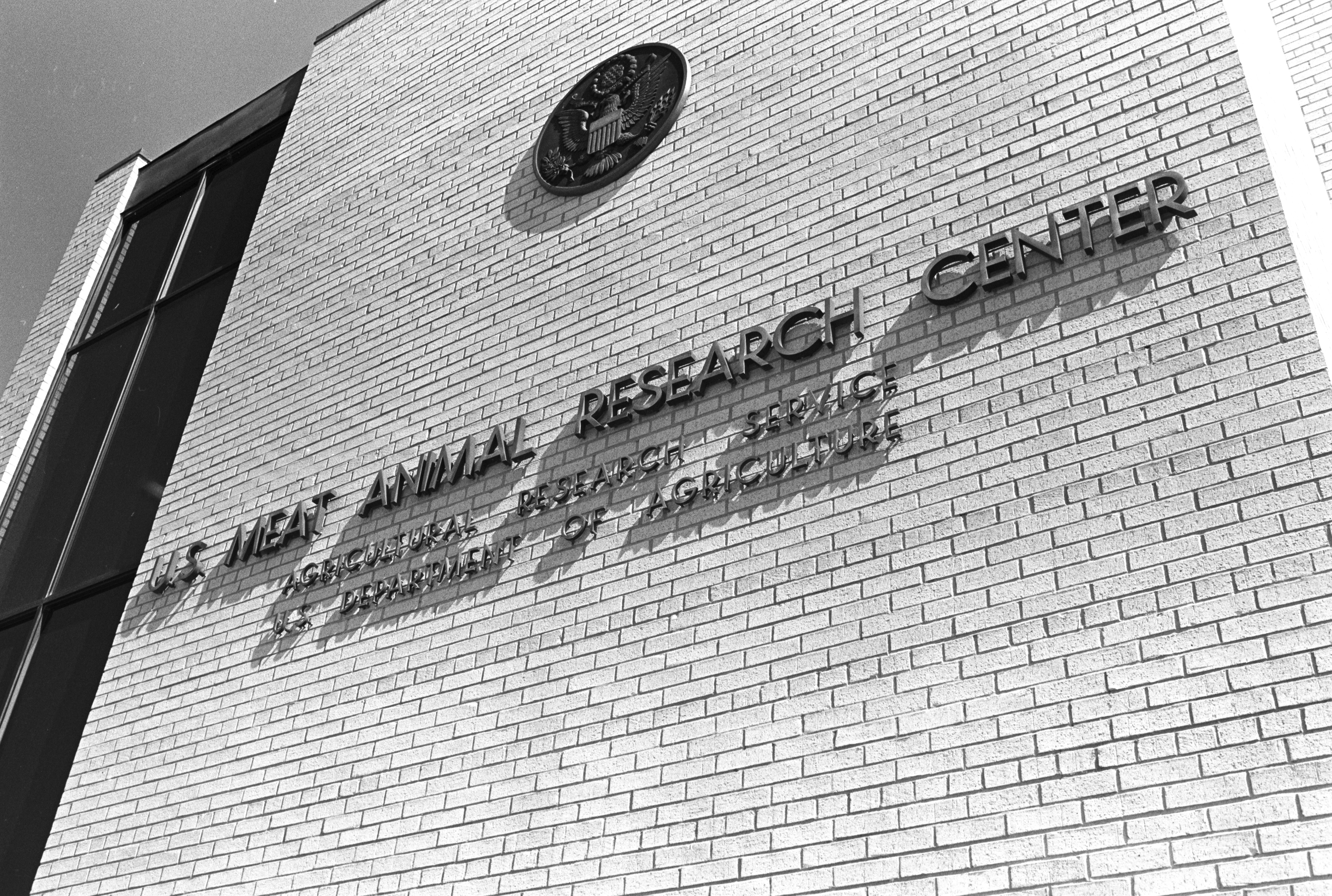 U.S. Department of Agriculture Meat and Animal Research Center in Clay Center Nebraska in June 1976. Photo courtesy National Archives and Records Administration.